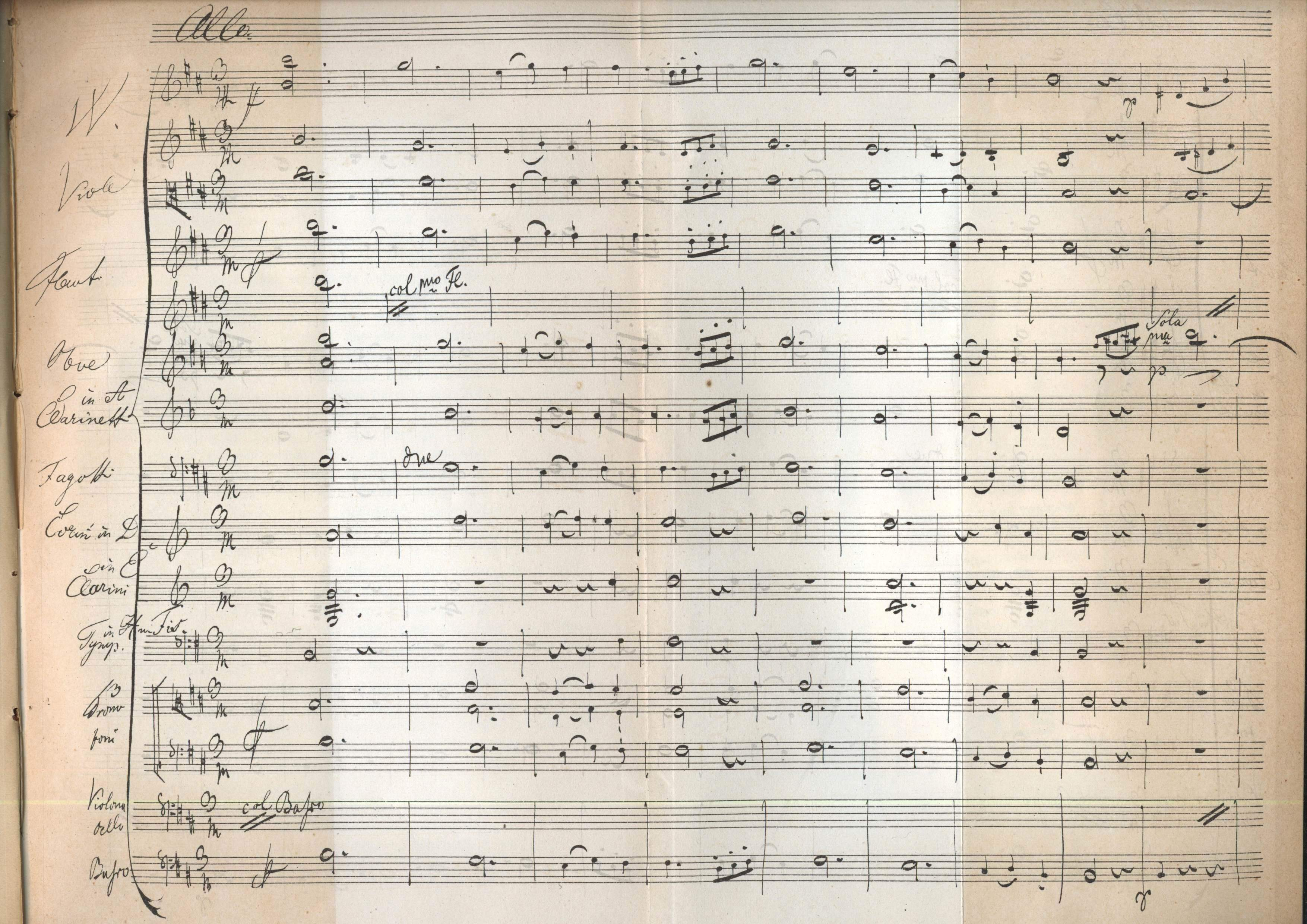 Unfinished Symphonie Facsimile 1885